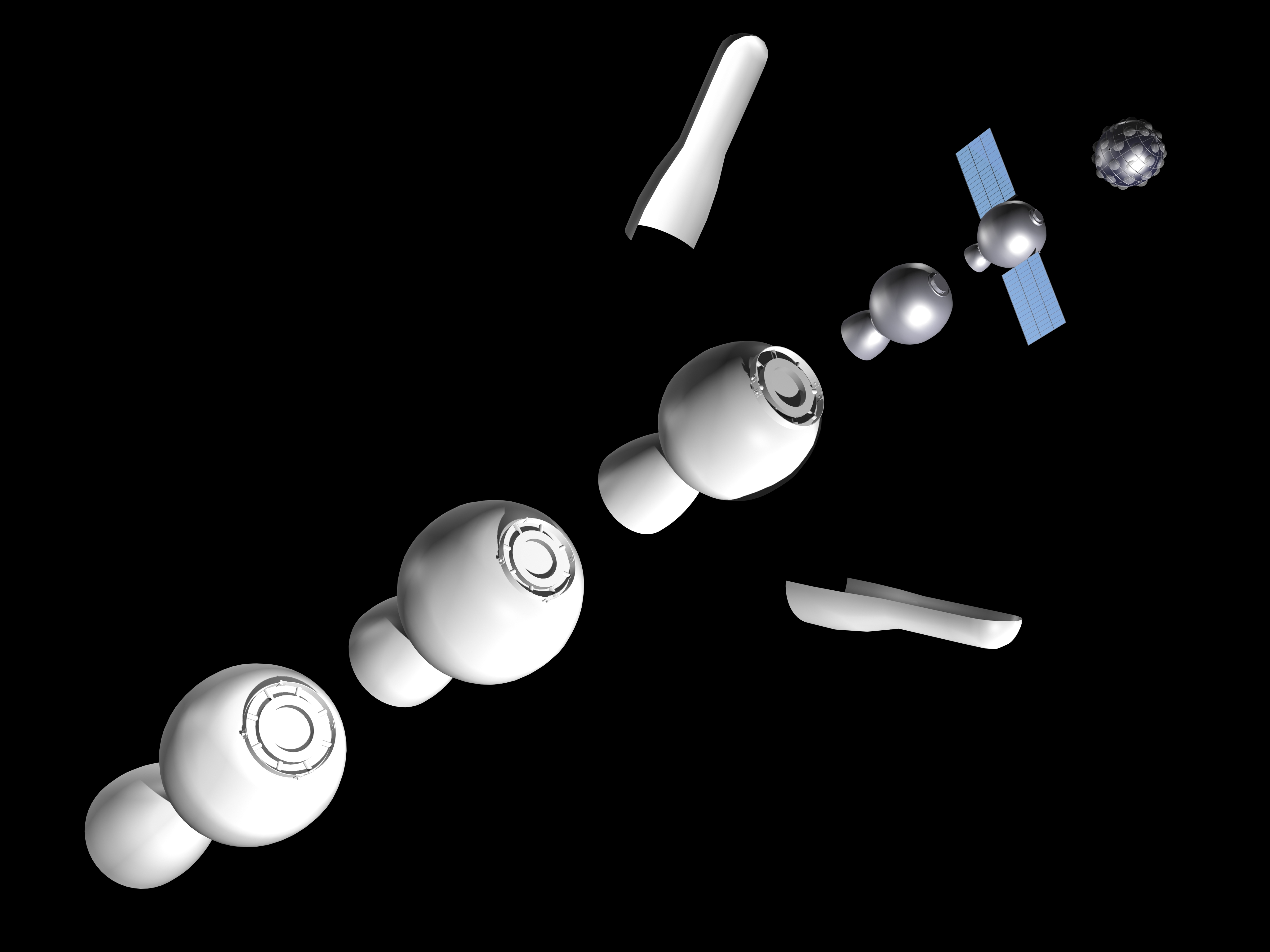 HAAS booster rocket